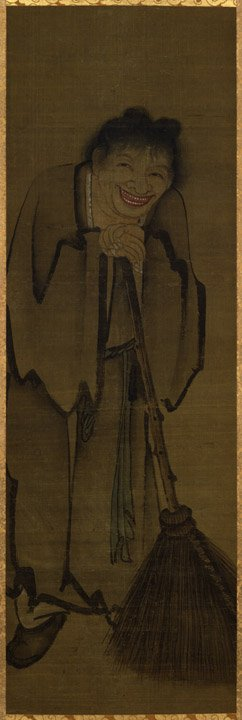 寒山拾得図（Han-shan and Shi-de）left